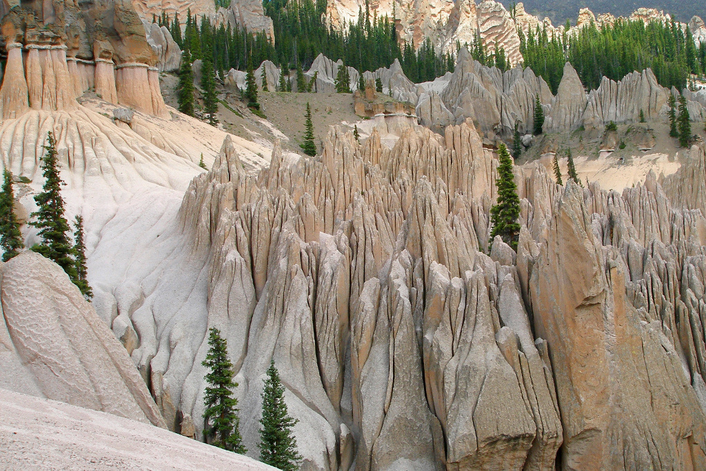 Wheeler Geologic Area, La Garita Wilderness, Colorado, USA